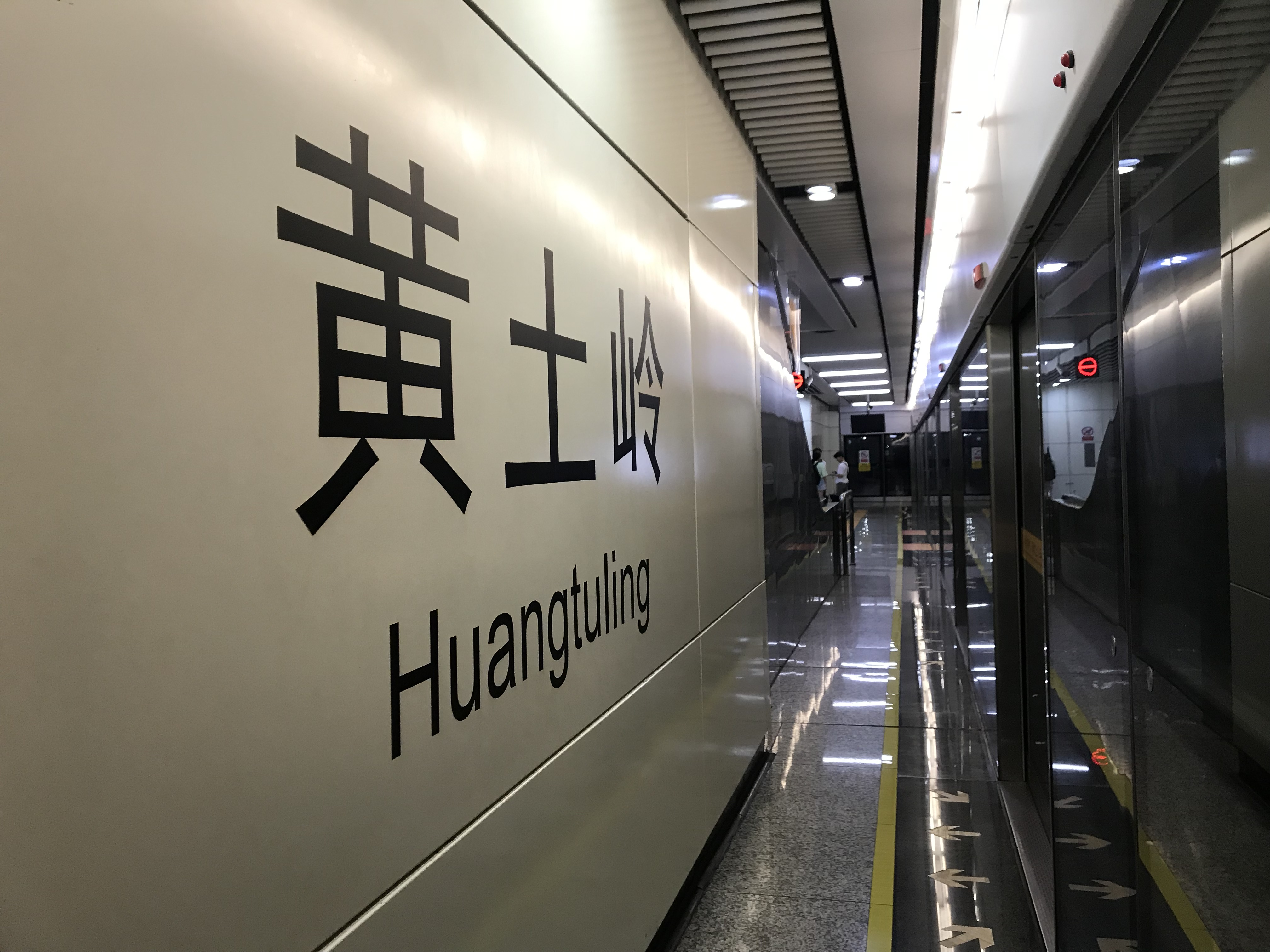 201906 Nameboard of L1 Huangtuling Station